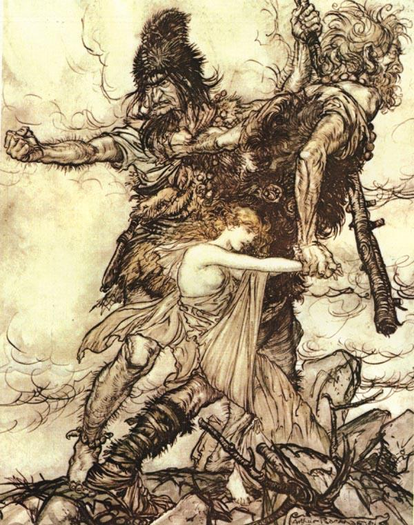 The goddess Freia is carried away by the giants Fasolt and Fafner.